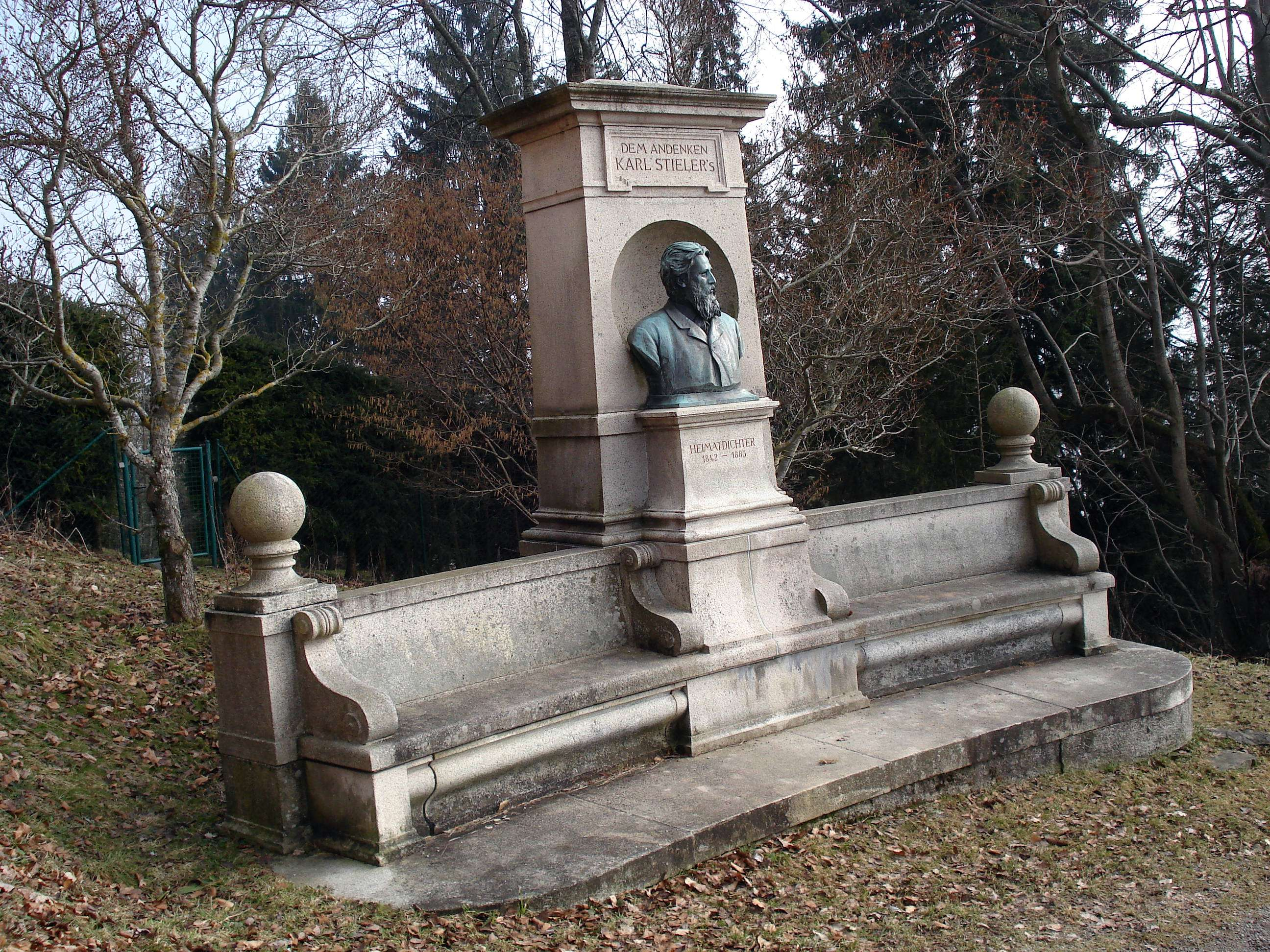 Photo of the Stieler Memorial at Tegernsee, in honor of the local poet Karl Stieler, Bavaria (Ger.).